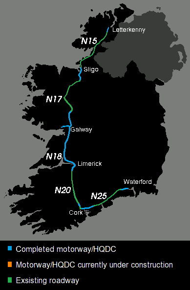 Atlantic Corridor route October 2017